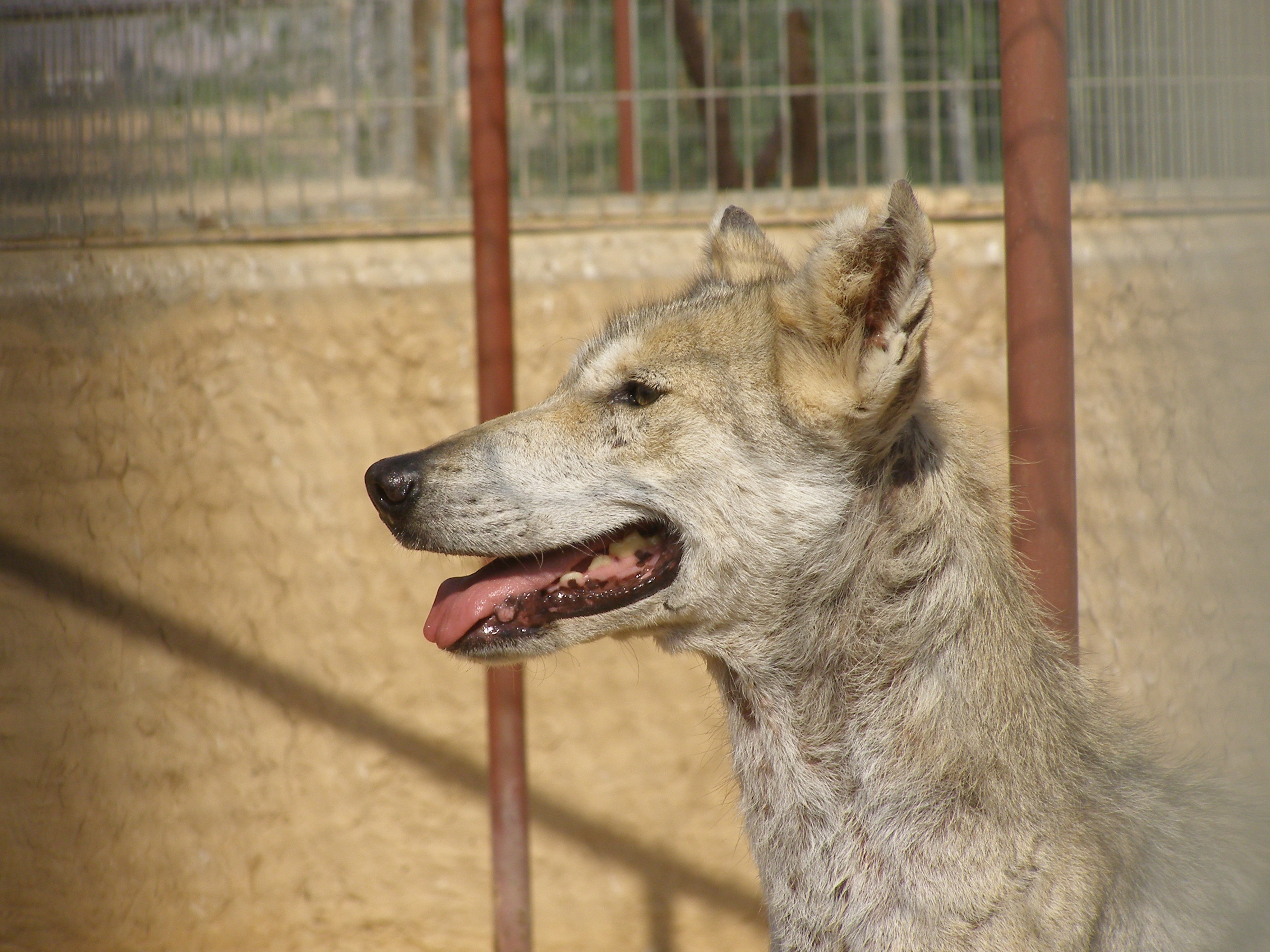 Head of Arabic Grey Wolf (Canis lupus arabs) female, Profile